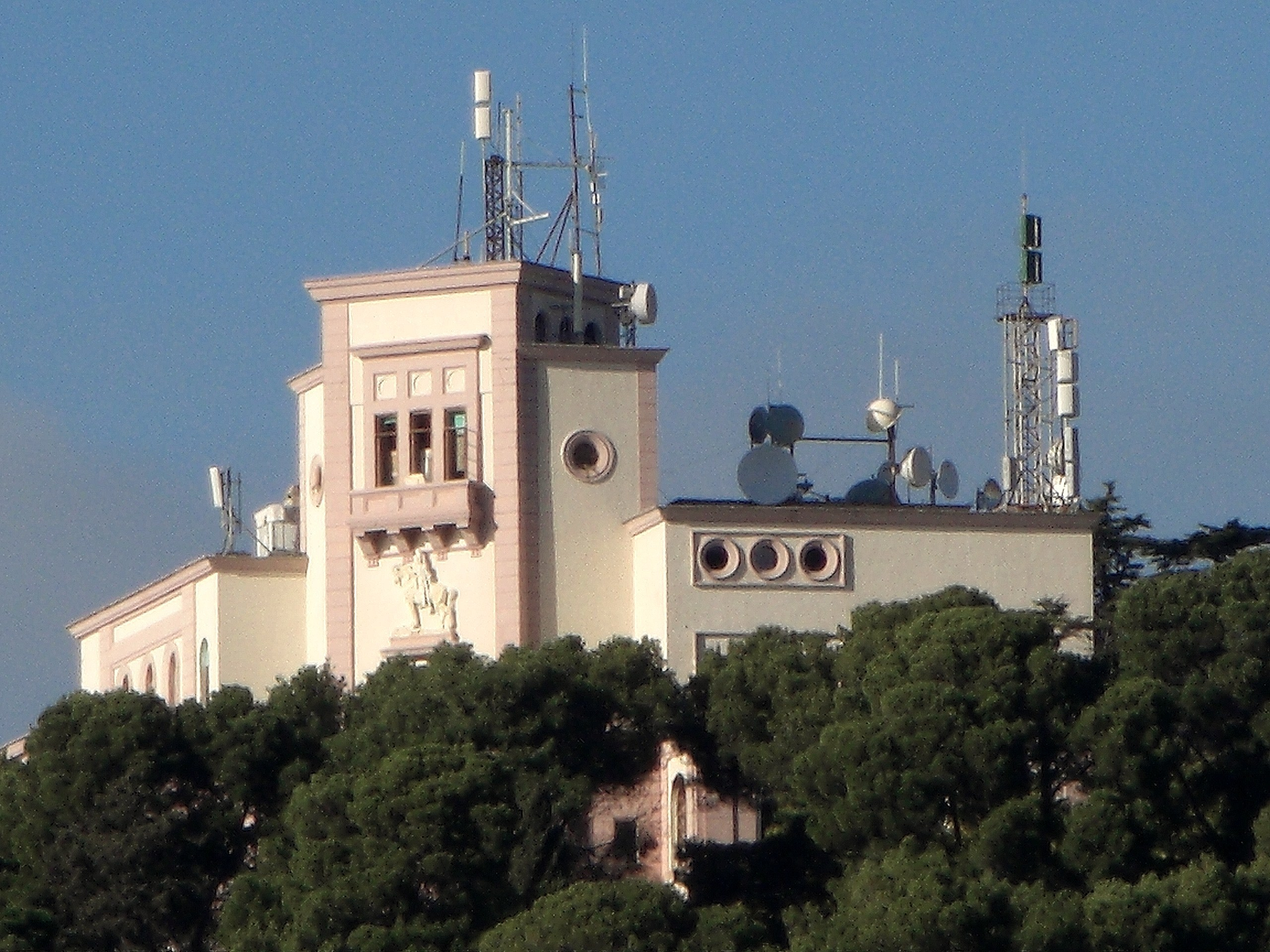 King Zog's House